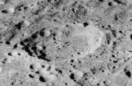 Oblique view of Freundlich, on the far side of the moon. North at top.